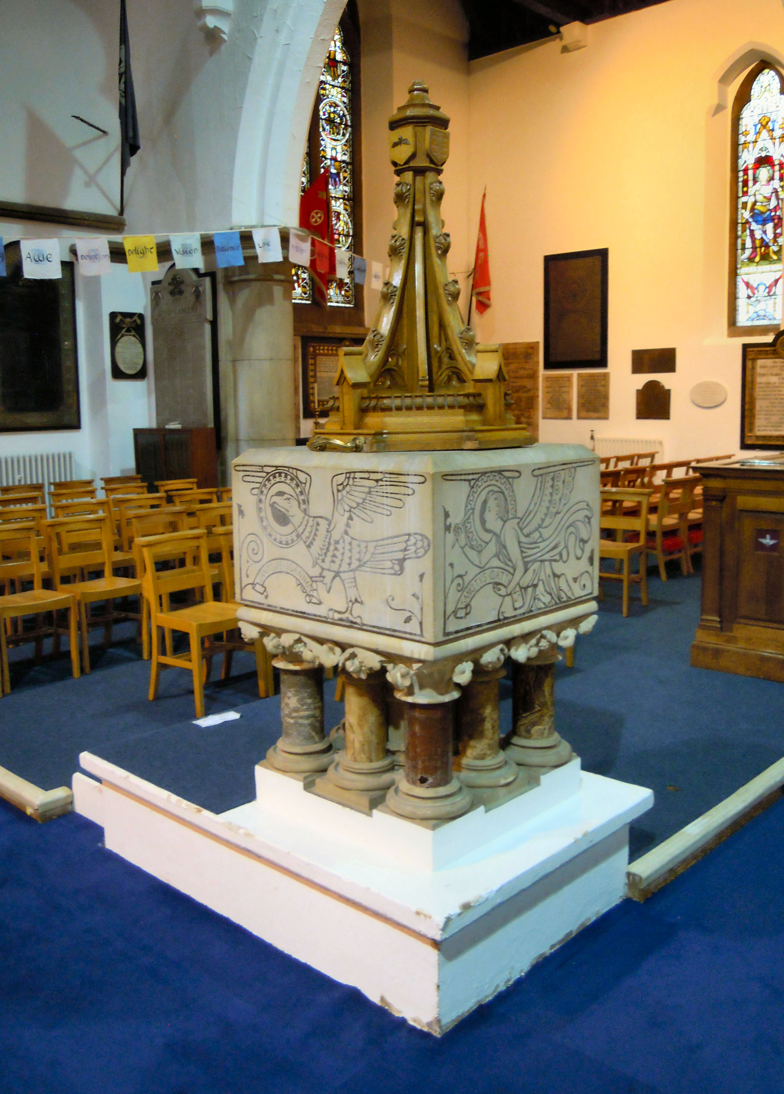 The font at the Royal Garrison Church, Aldershot